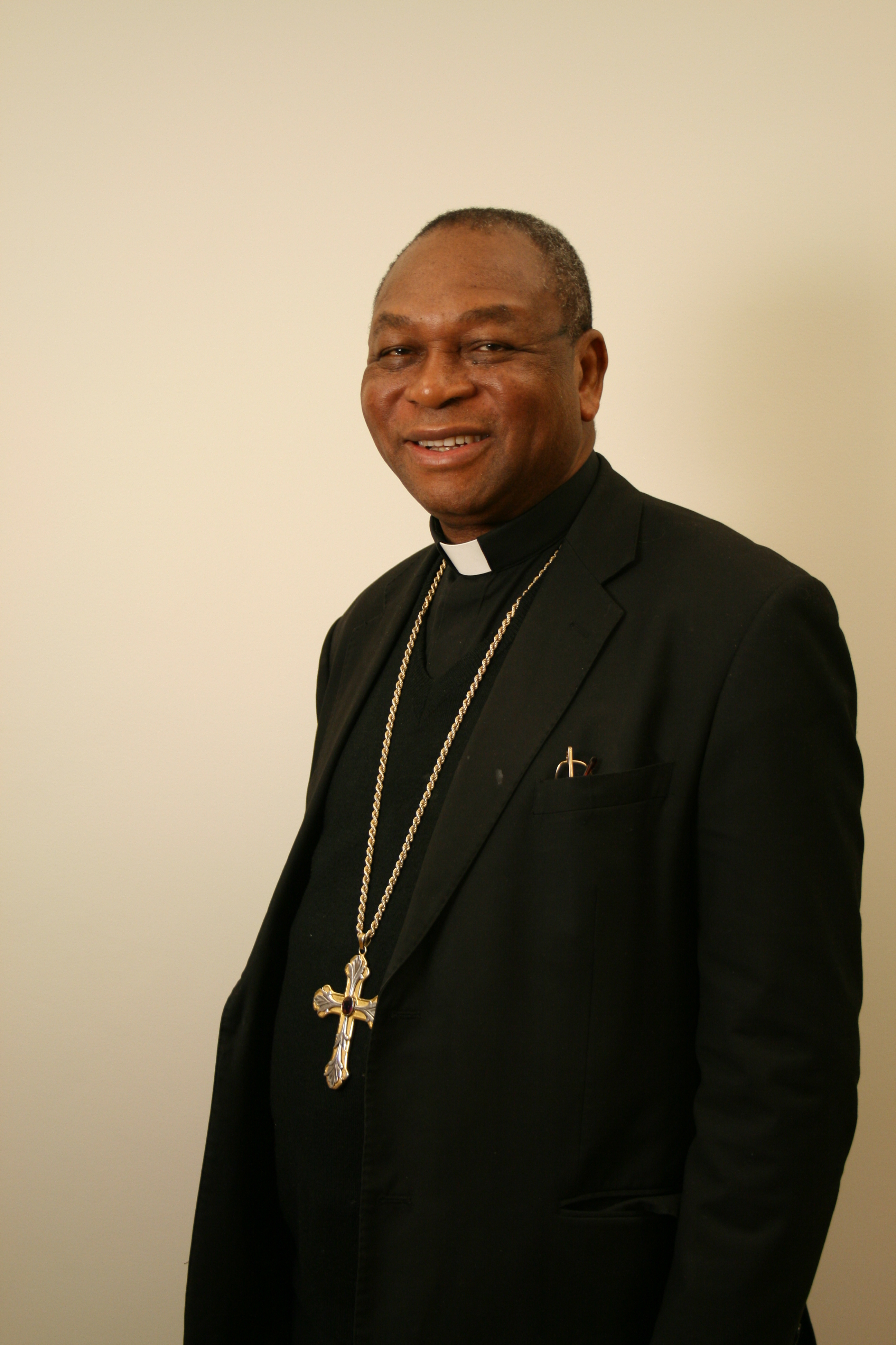 Picture of His Eminence, Cardinal John Onaiyekan, Archbishop of Abuja